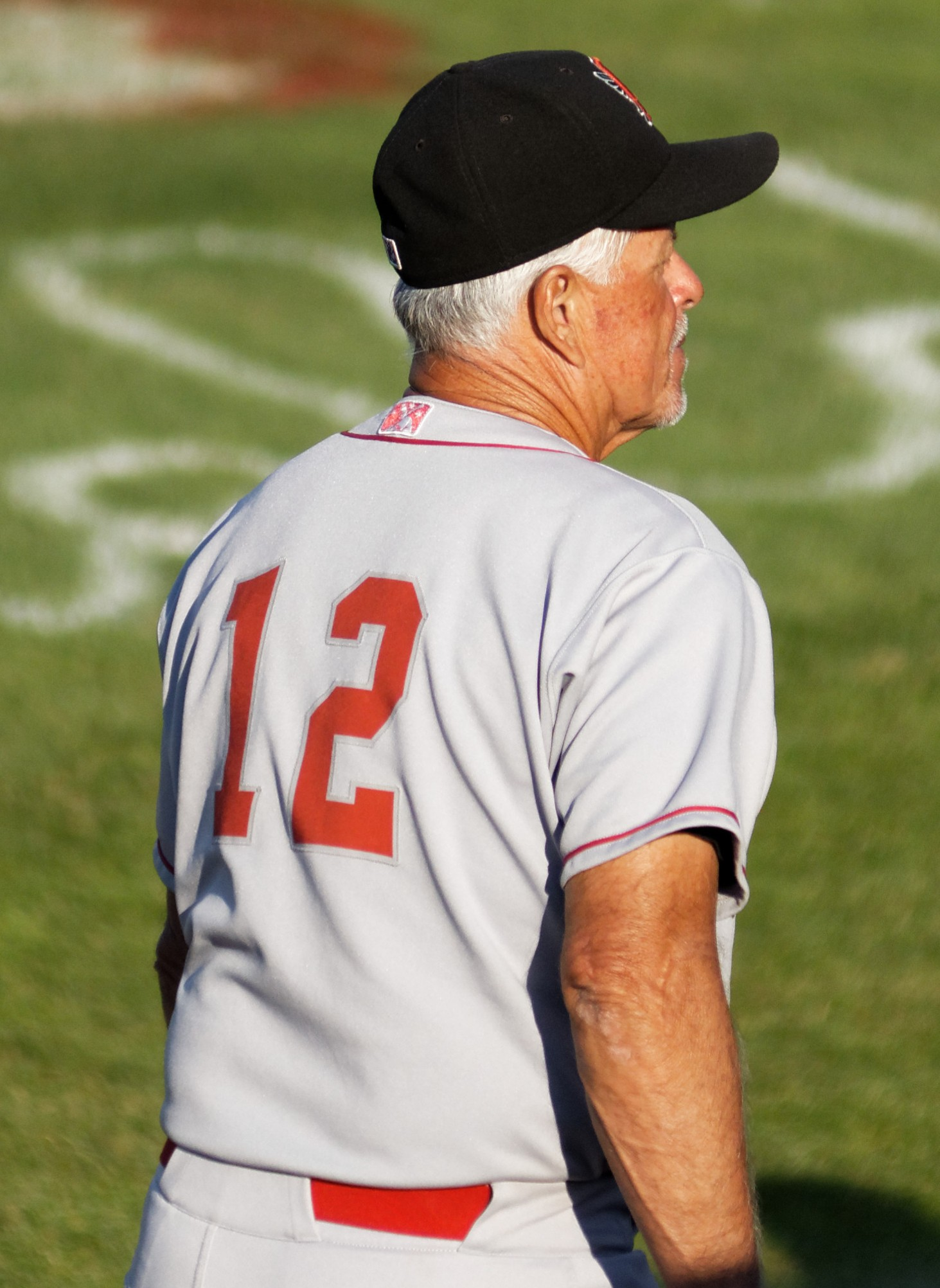 Bobby Cuellar as a coach with the Great Lake Loons in 2016. Cropped from the original because the Upload Wizard wouldn't accept the original file.